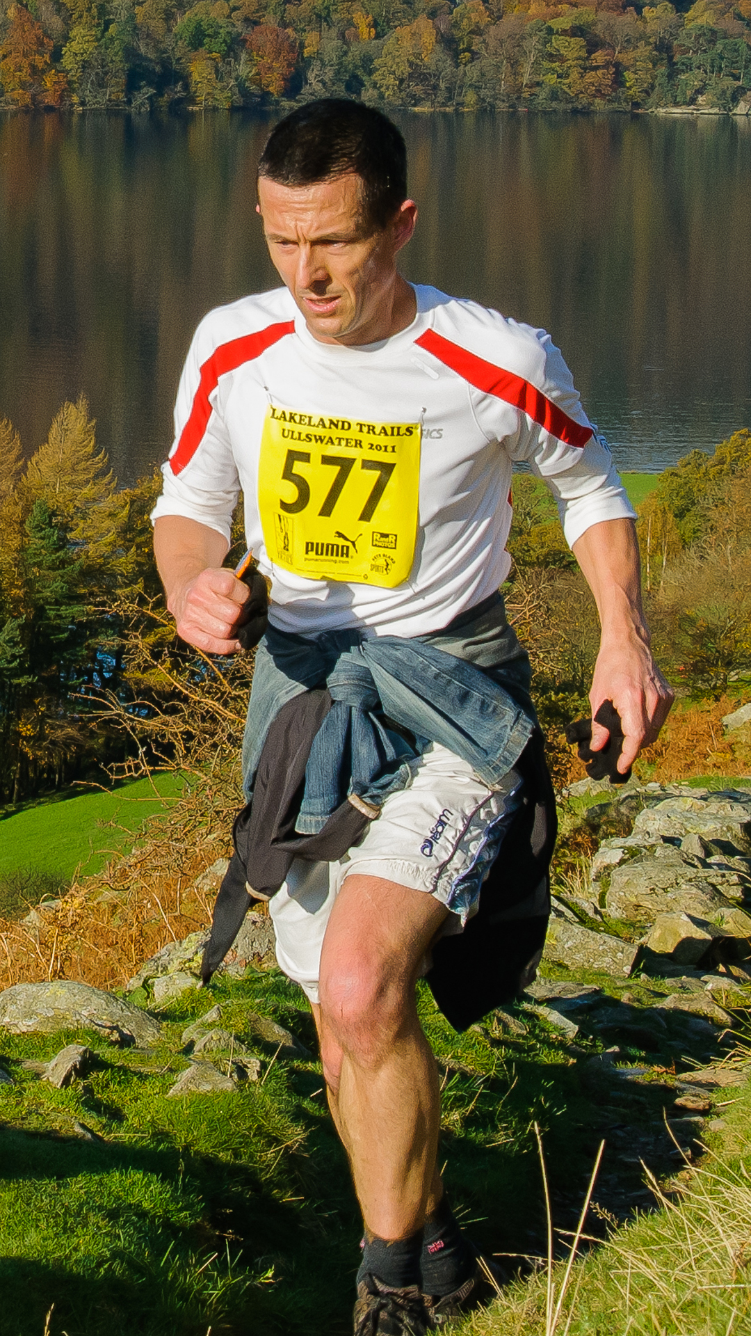 Photo taken on the banks of Ullswater lake, Lake District. Sunday 6 November 2011. Cropped to focus on the runner's trail shorts and running clothing.